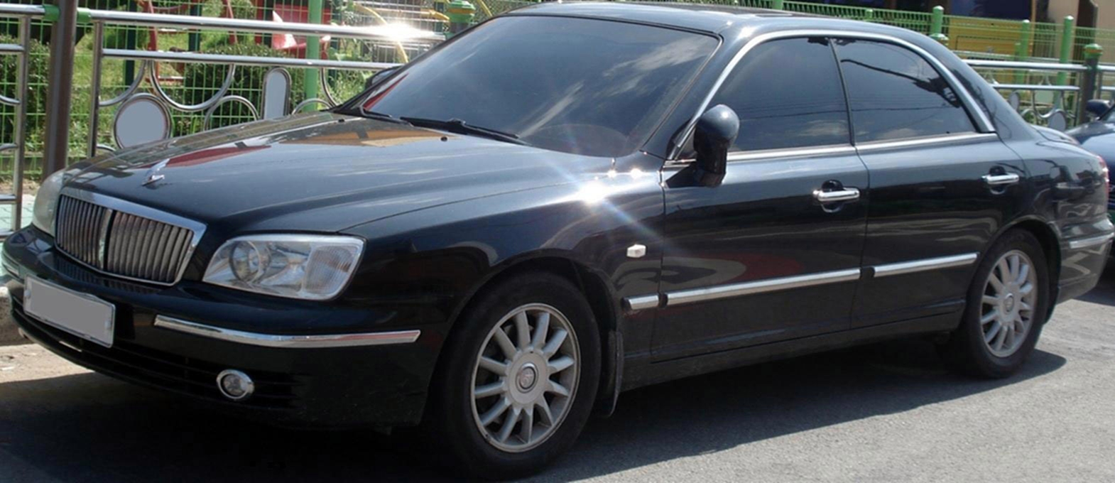 Hyundai New Grandeur XG